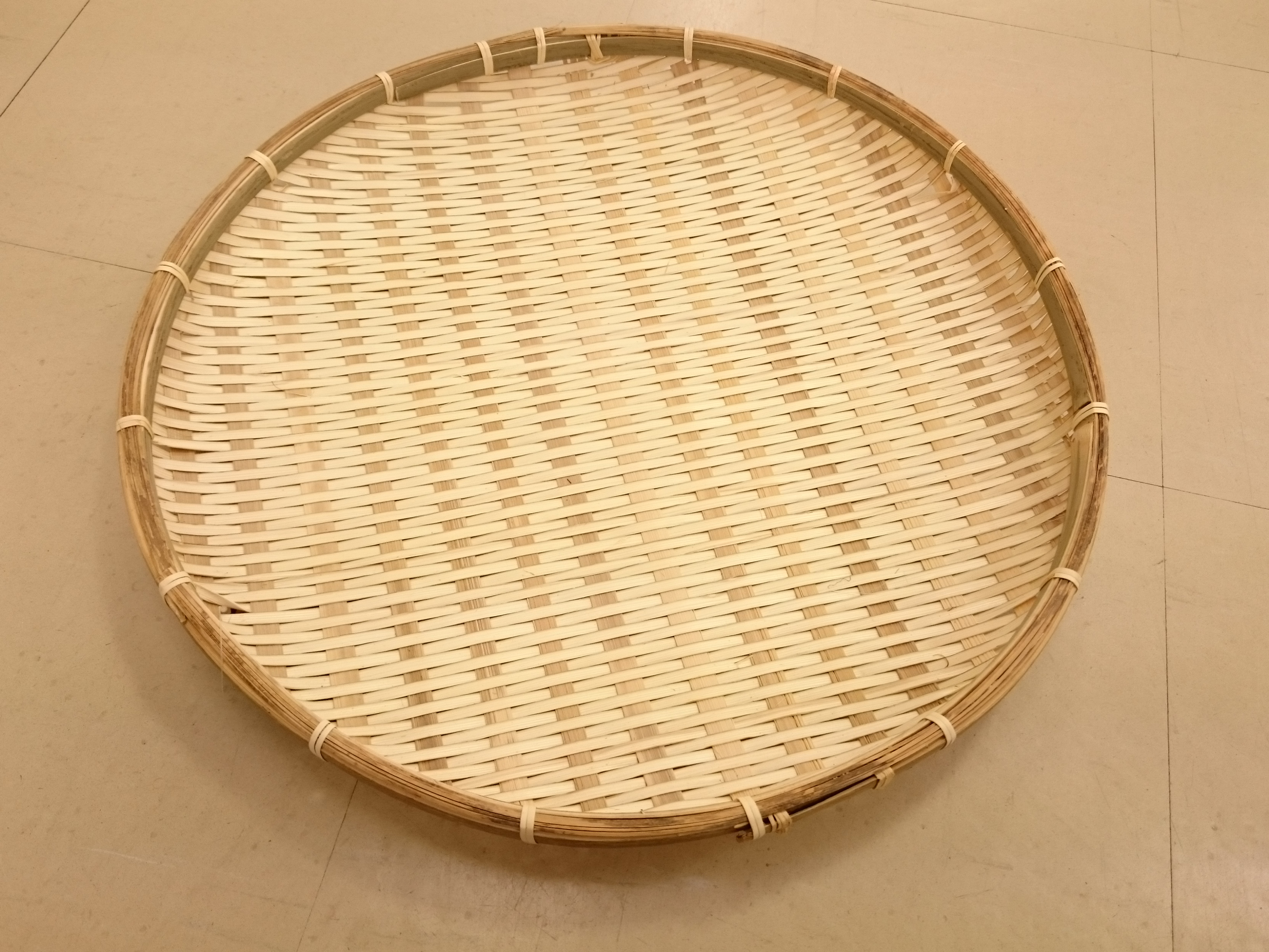 Zaru (bamboo basket)